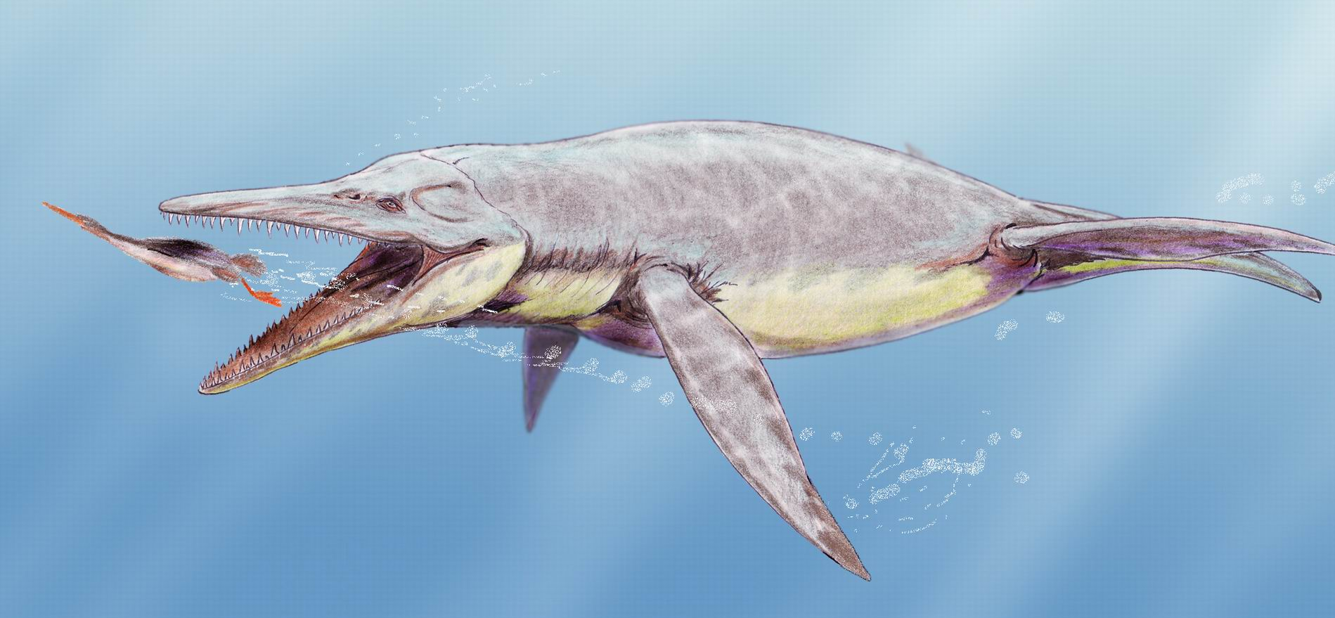 Cropped image of taxon in file name